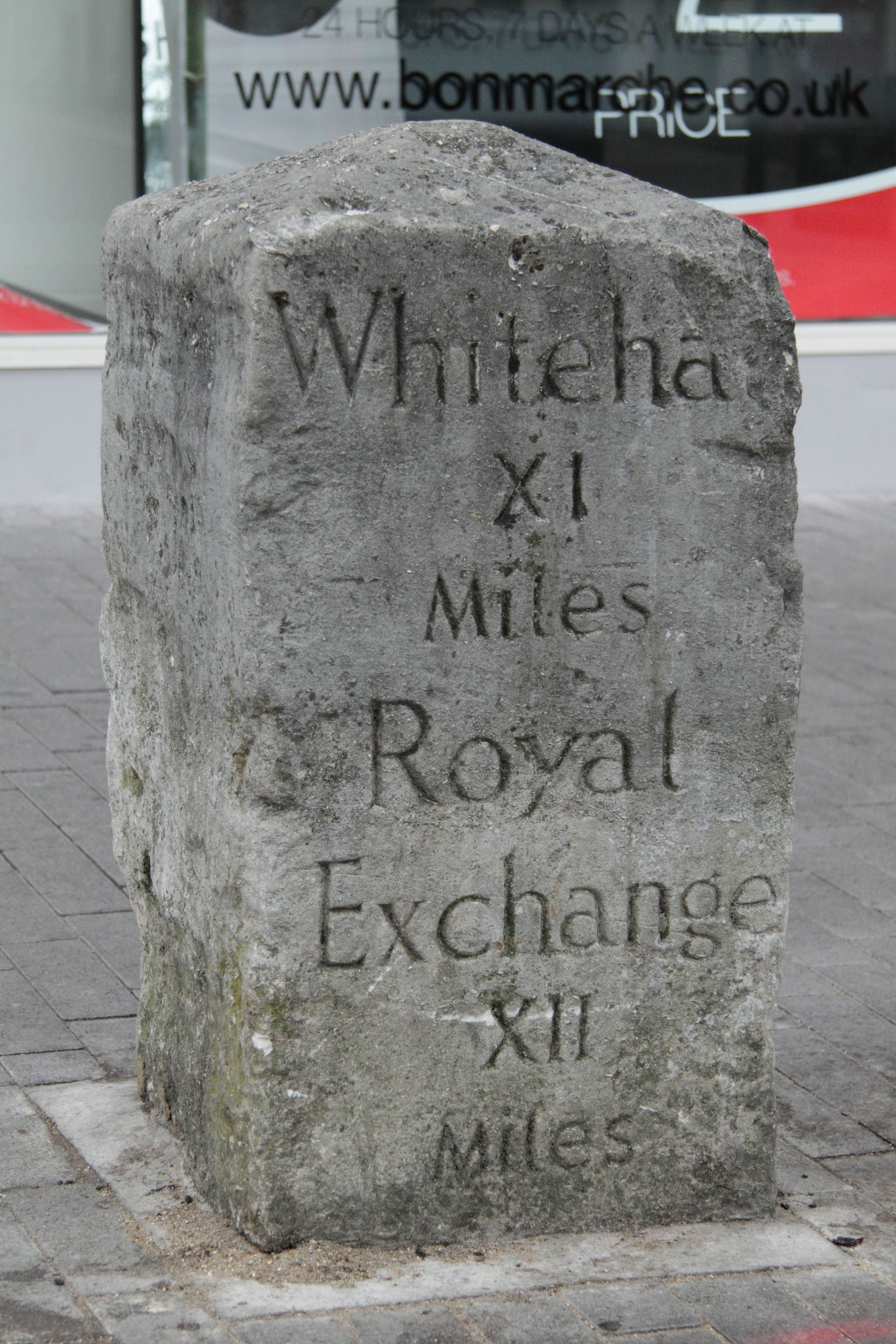 Milestone in Sutton High Street Wikidata has entry Q17645107 with data related to this monument.